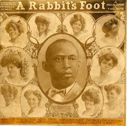 Cover of theatre programme, c.1905